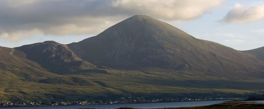 Croagh Patrick